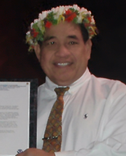 This photo belongs to the National Oceanic and Atmospheric Administration, an arm of the US federal government.[1]